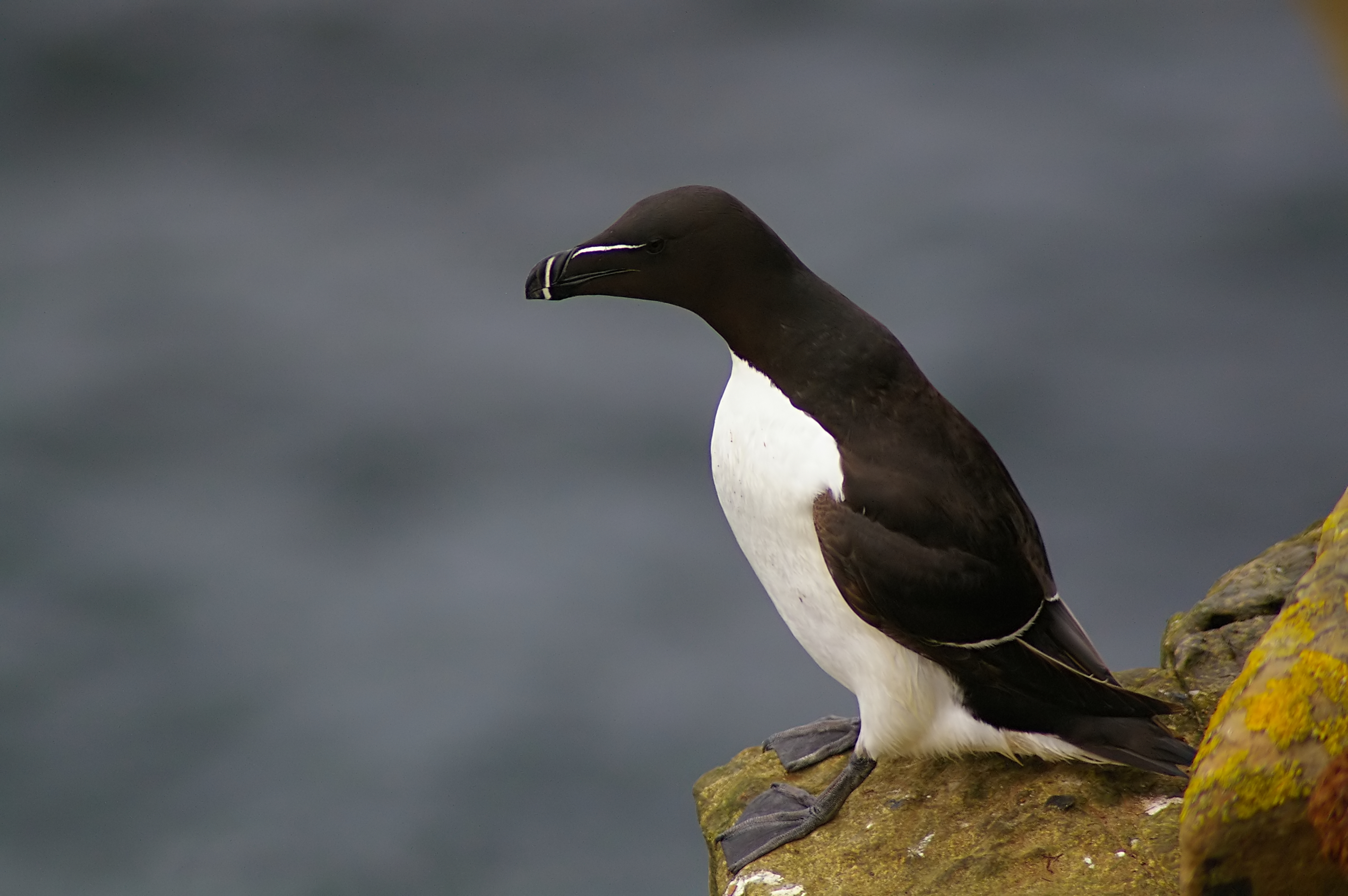 Razorbill Alca torda, Caithness, Scotland